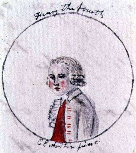 Portrait of Henry IV. Ink and watercolor on paper. A medallion illustration from Jane Austen's (sister of artist) work of juvenilia, The History of England.